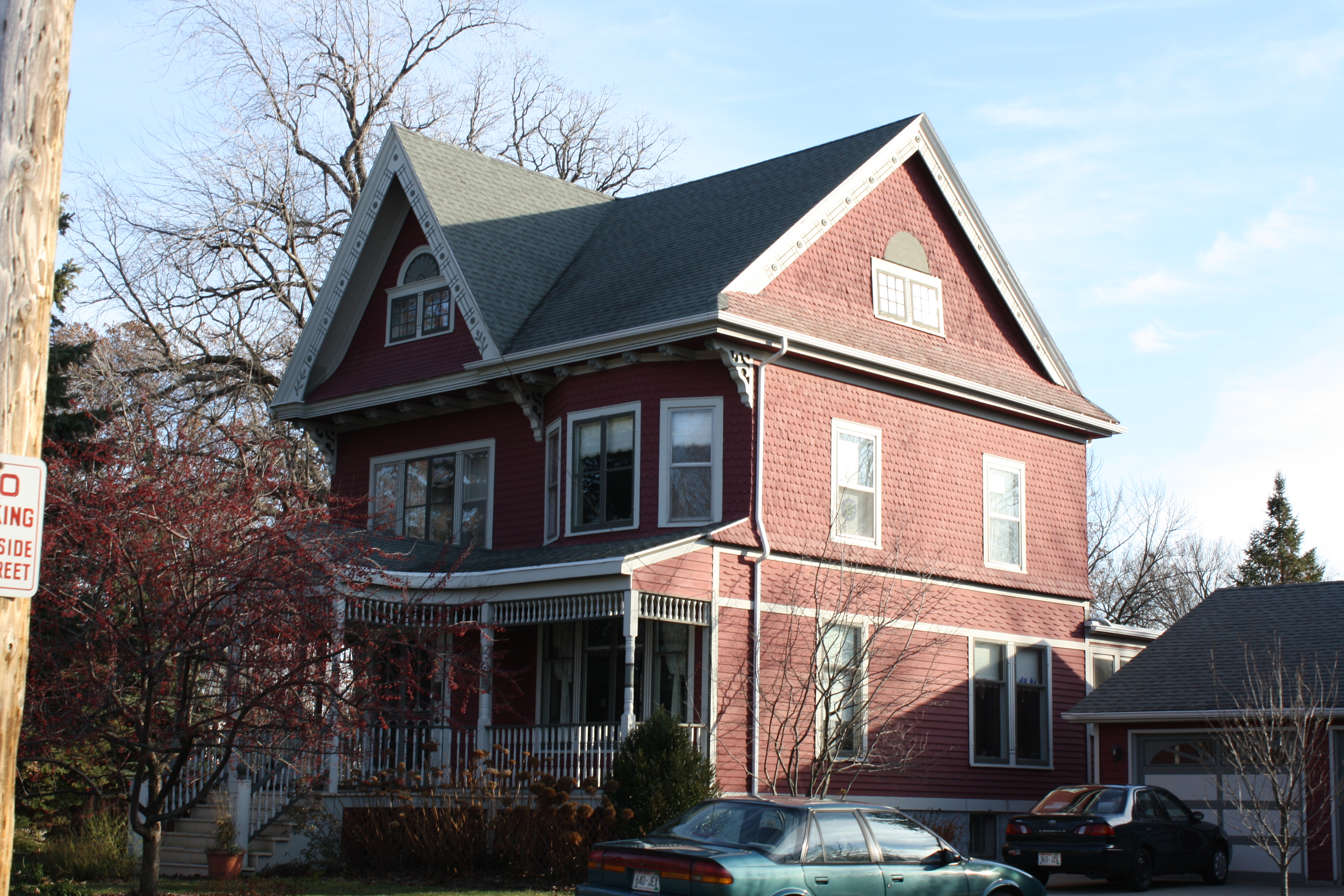 The Ellis Jennings House in Neenah, Wisconsin. It is listed on the National Register of Historic Places.